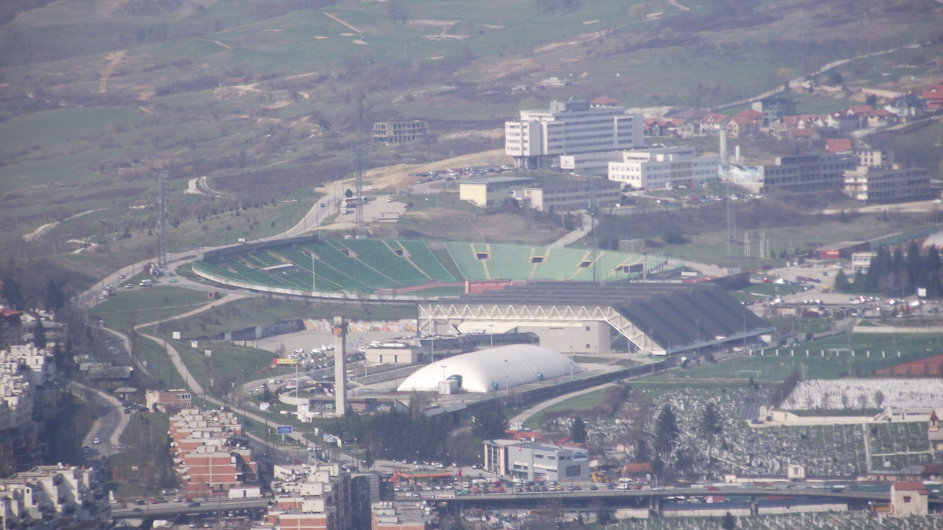 Stadion Asim Ferhatović Hase in Sarajevo, Bosnia